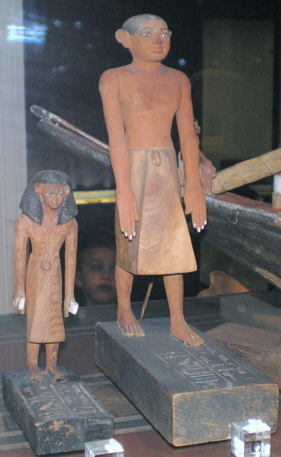 Statues of Nakhtankh, found in his tomb at Rifeh (Tomb of two Brothers); Manchester Museum